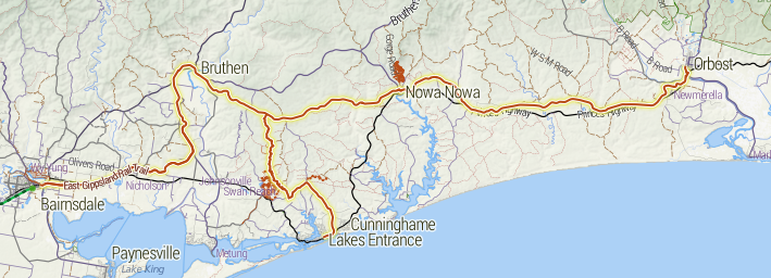 Map of East Gippsland Rail Trail. Cartography by Steve Bennett, data by OpenStreetMap contributors.